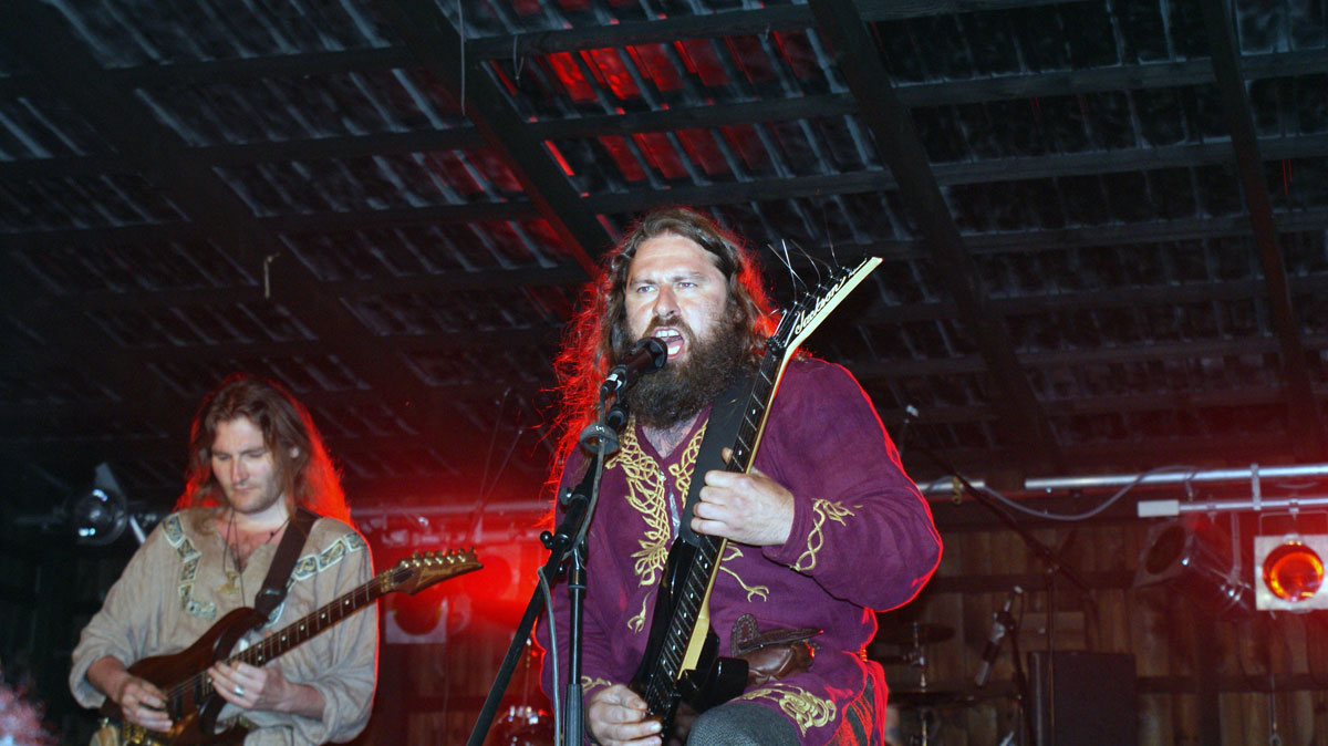 Picture of the band Menhir at Hoernerfest Open Air 2009 in Germany